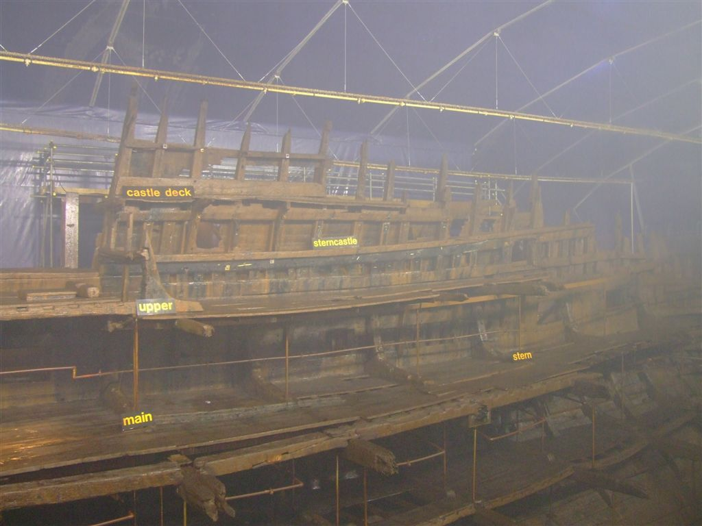 The Tudor period carrack Mary Rose under going conservation with polyethylene glycol (PEG) in June 2008 at the Historic Dockyard in Portsmouth, United Kingdom.